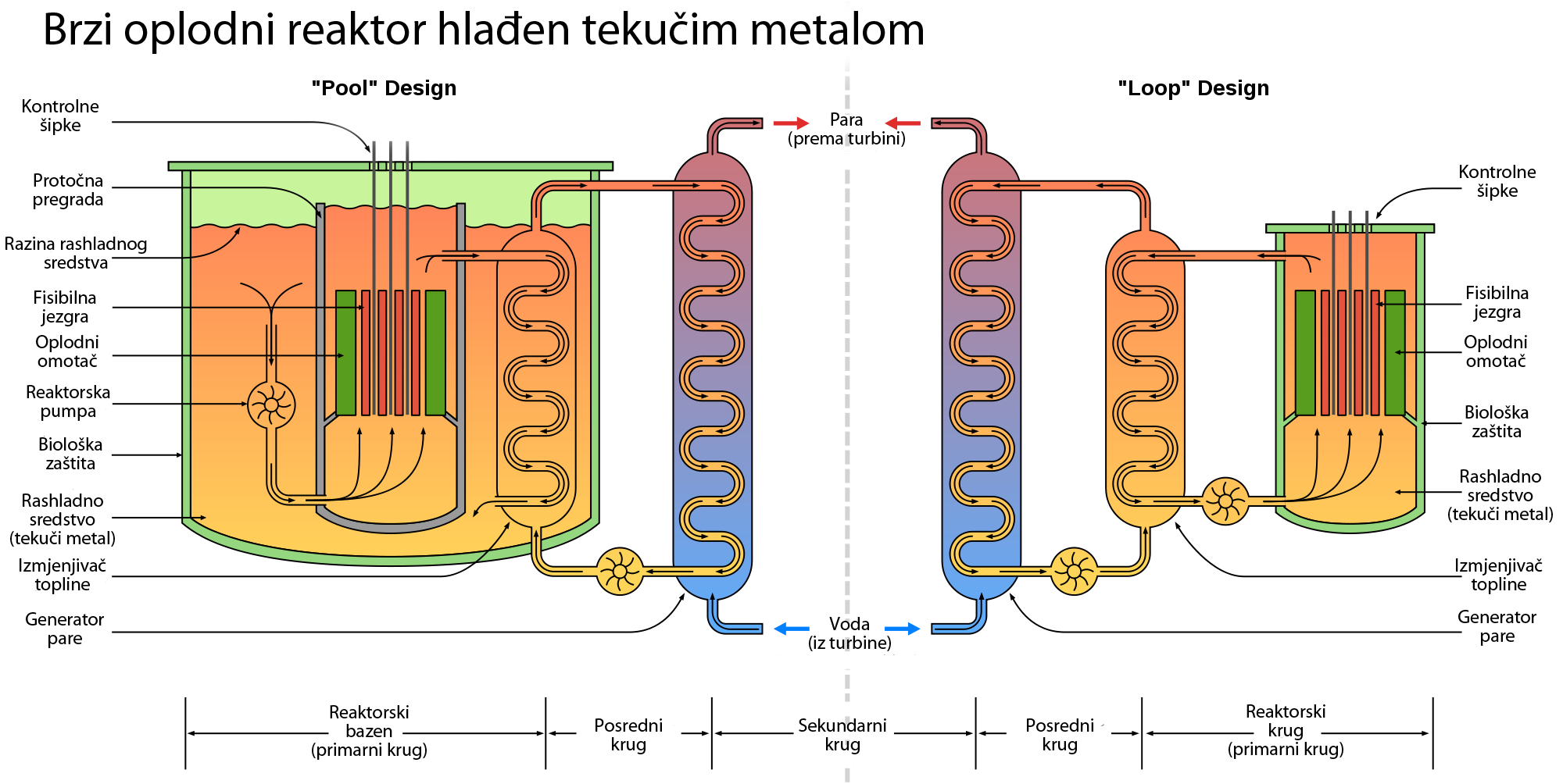 A schematic of the two types of liquid metal fast breeder reactor (LMFBR), a fast neutron reactor designed to breed fuel by producing more fissile material than it consumes. FBRs are used in nuclear power plants to produce nuclear power from nuclear fuel. LMFBRs are cooled by liquid sodium, but other metals have been used in the past.